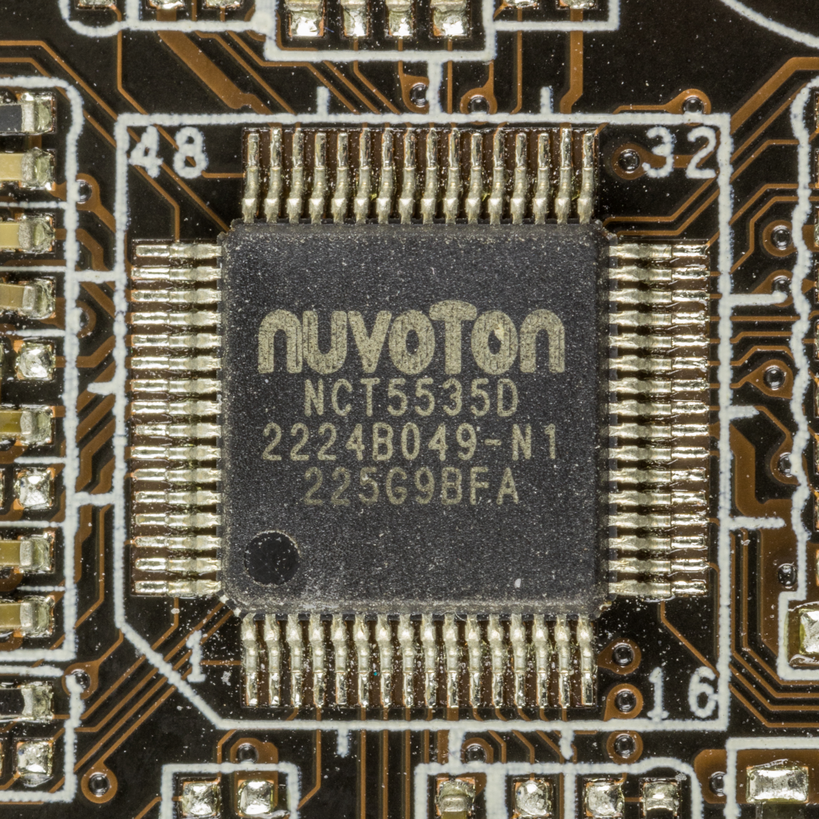 Asus P8H61-MX USB3 - Nuvoton NCT5535D - LPC I/O. Package: 64-pin LQFP